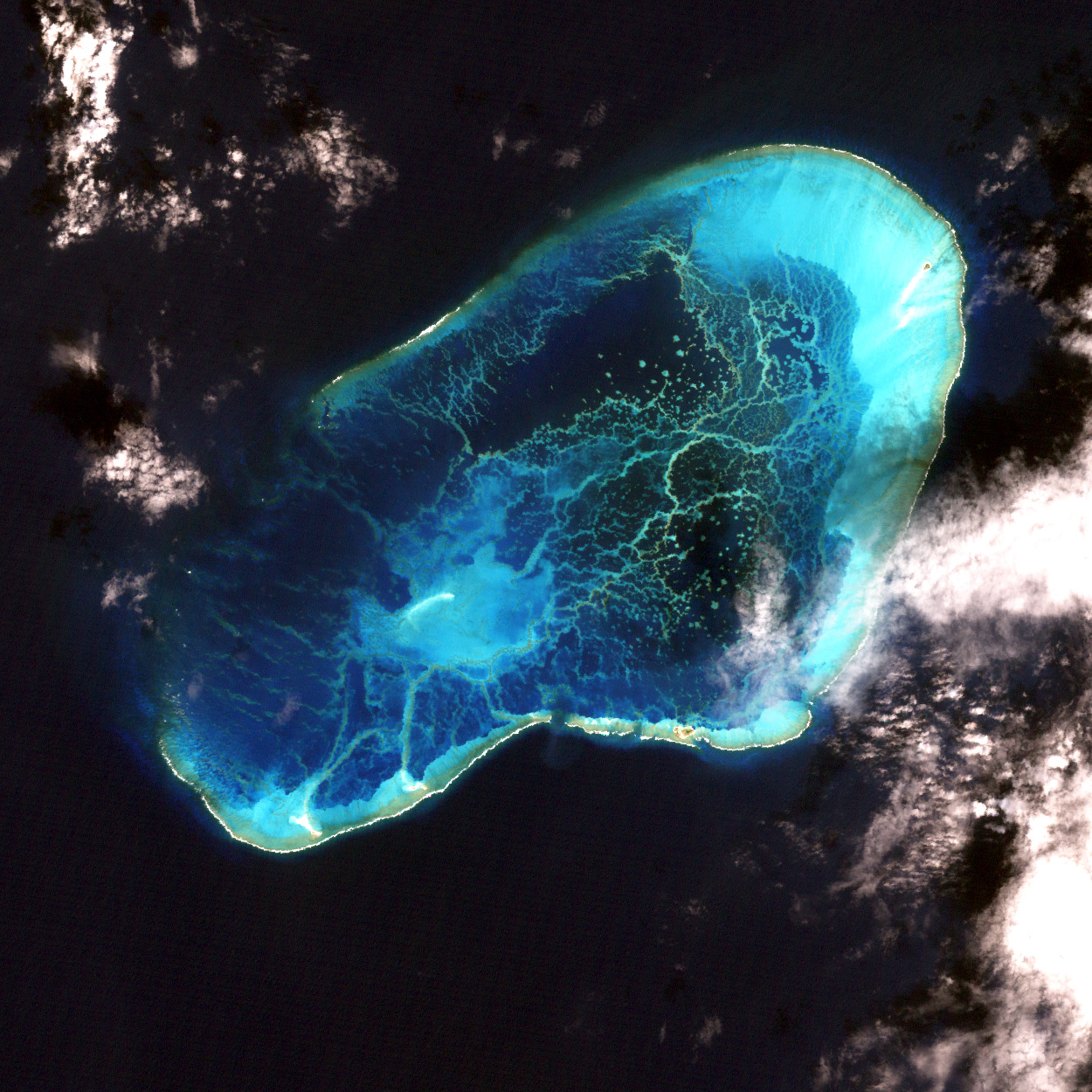 Pearl and Hermes Atoll, Northwestern Hawaiian Islands - Satellite image from USGS' Landsat7 Satellite